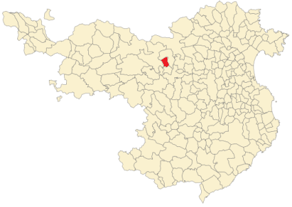 Tortellà